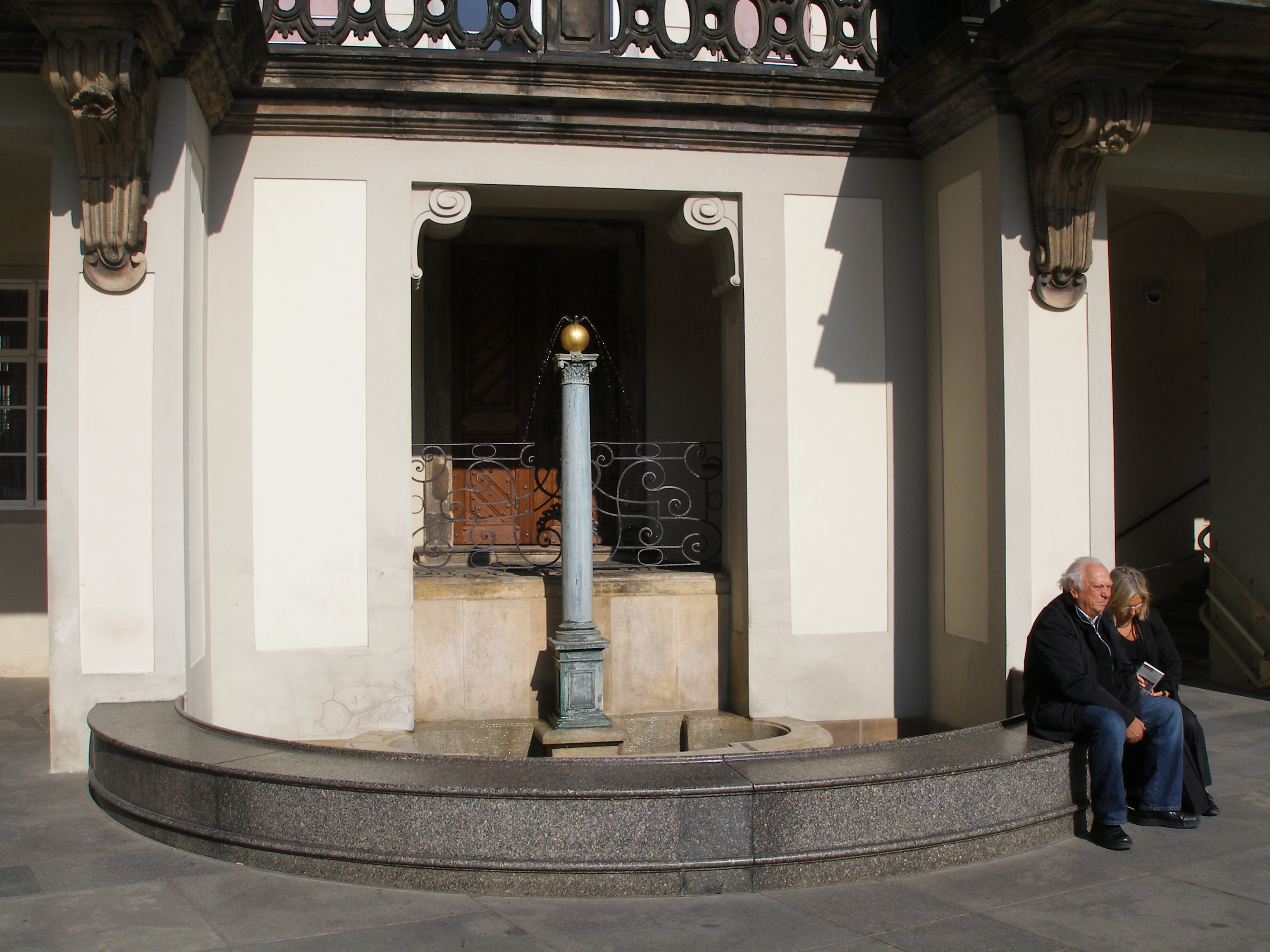 Orlí kašna (Eagle Fountain) in Prague Castle.